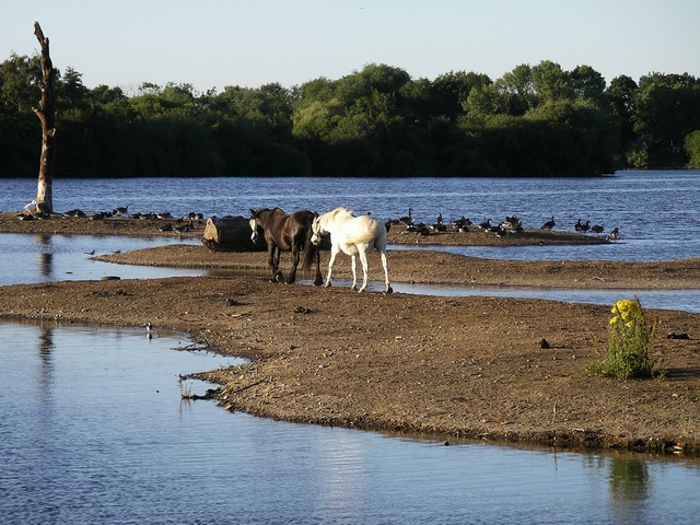 Horses & Geese. Horses and Canada geese at Attenborough Nature reserve. for information about the reserve.